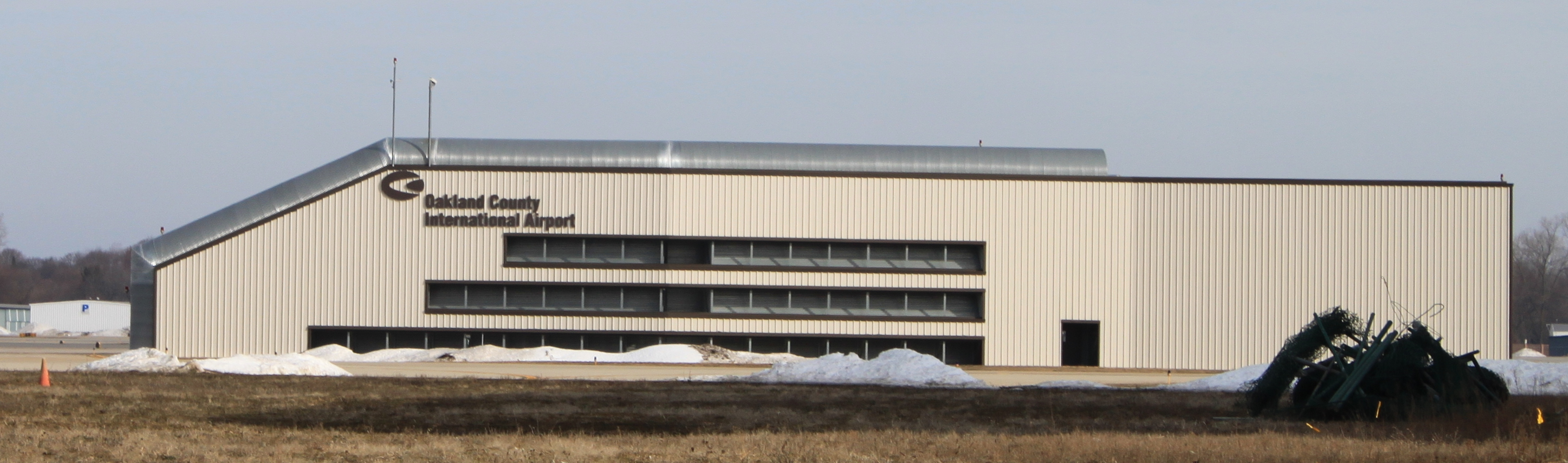 Oakland County International Airport Ground Run-Up Enclosure, Highland Road, Waterford Township, Michigan, serving Pontiac.